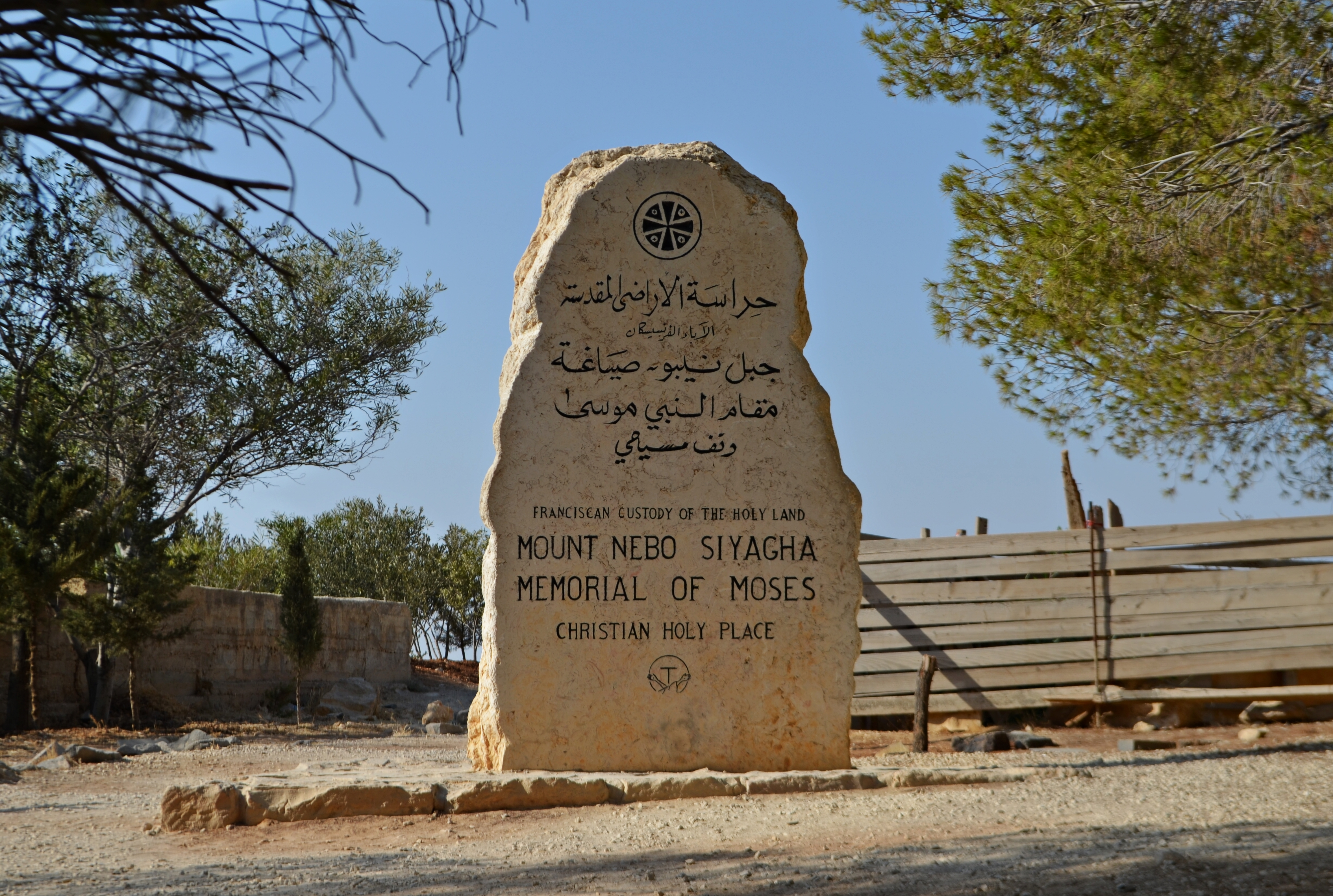 Mount Nebo, Madaba, Madaba Governorate, Jordan.